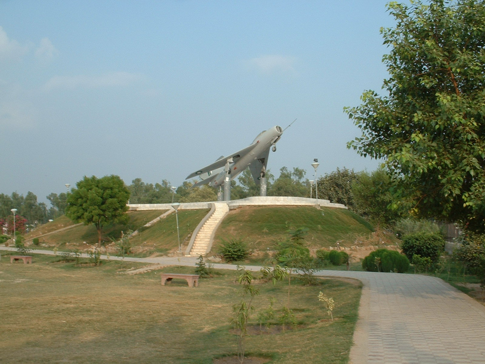 Pahari Ground Park, Faisalabad